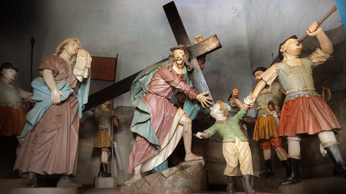 Aleijadinho (1738–1814) Alternative names legal name: Antônio Francisco LisboaDescriptionBrazilian sculptor and architectDate of birth/death 1730 or 1738 18 November 1814 Location of birth/death Ouro Preto Ouro PretoWork periodfrom 1752 until 1814 date QS:P,+1500-00-00T00:00:00Z/6,P580,+1752-00-00T00:00:00Z/9,P582,+1814-00-00T00:00:00Z/9Work location Minas Gerais Authority control : Q379714 VIAF: 52484559 ISNI: 0000 0001 2133 1560 ULAN: 500069456 LCCN: n50072231 WGA: LISBOA, Antonio Francisco WorldCat creator QS:P170,Q379714 Cristo carregando a cruz, ou Senhor dos Passos, Santuário de Congonhas, Brasil